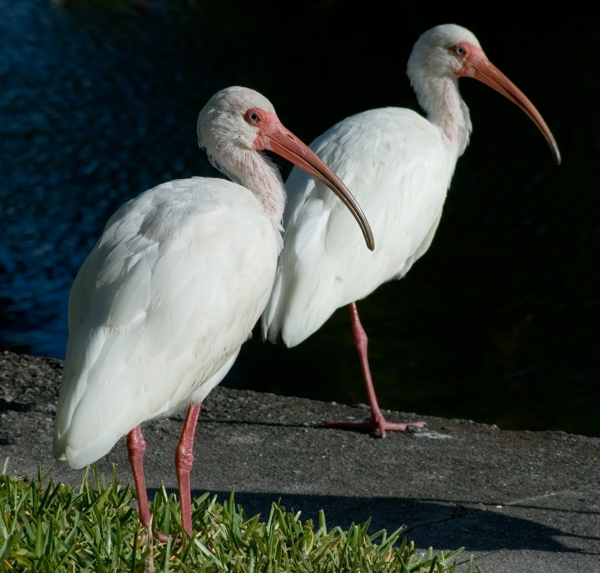 Juvenile American white ibis (Eudocimus albus) molting into adult plumage in Florida.